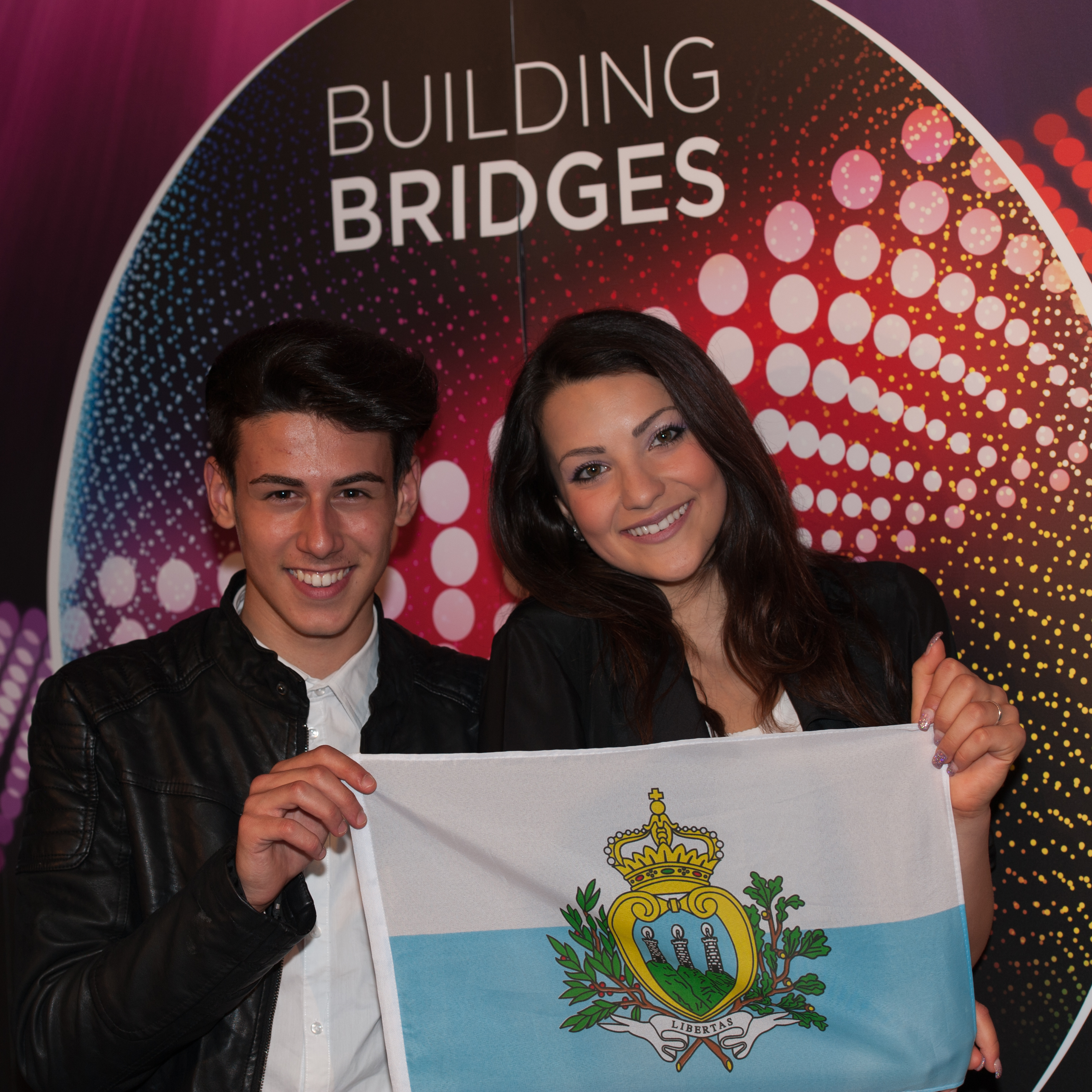 Eurovision Song Contest Vienna 2015: Michele Perniola & Anita Simoncini